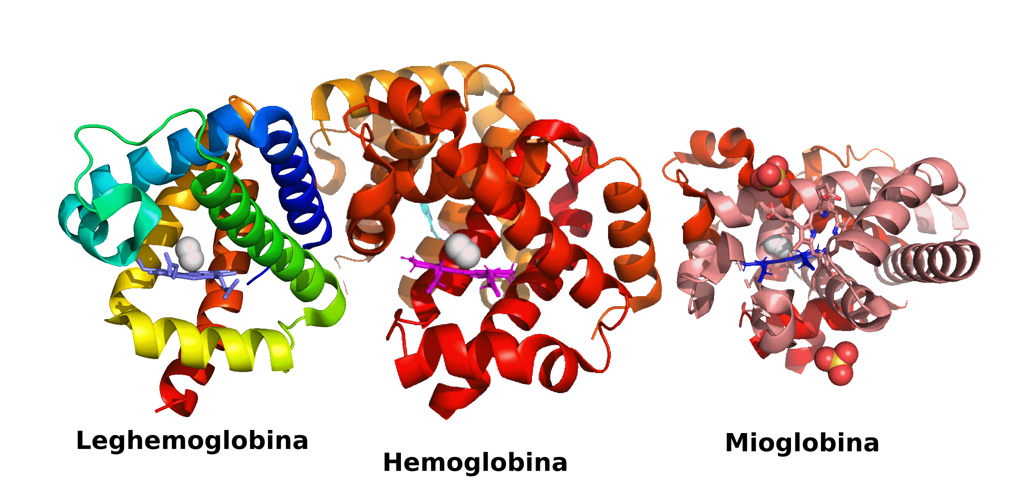 Cartoons of three oxygenated globin molecules- leghemoglobin, hemoglobin, and myoglobin. Oxygen molecules are shown in gray.